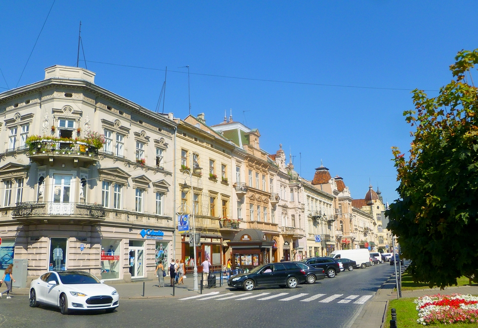 Shevchenko Avenue in Lviv city center